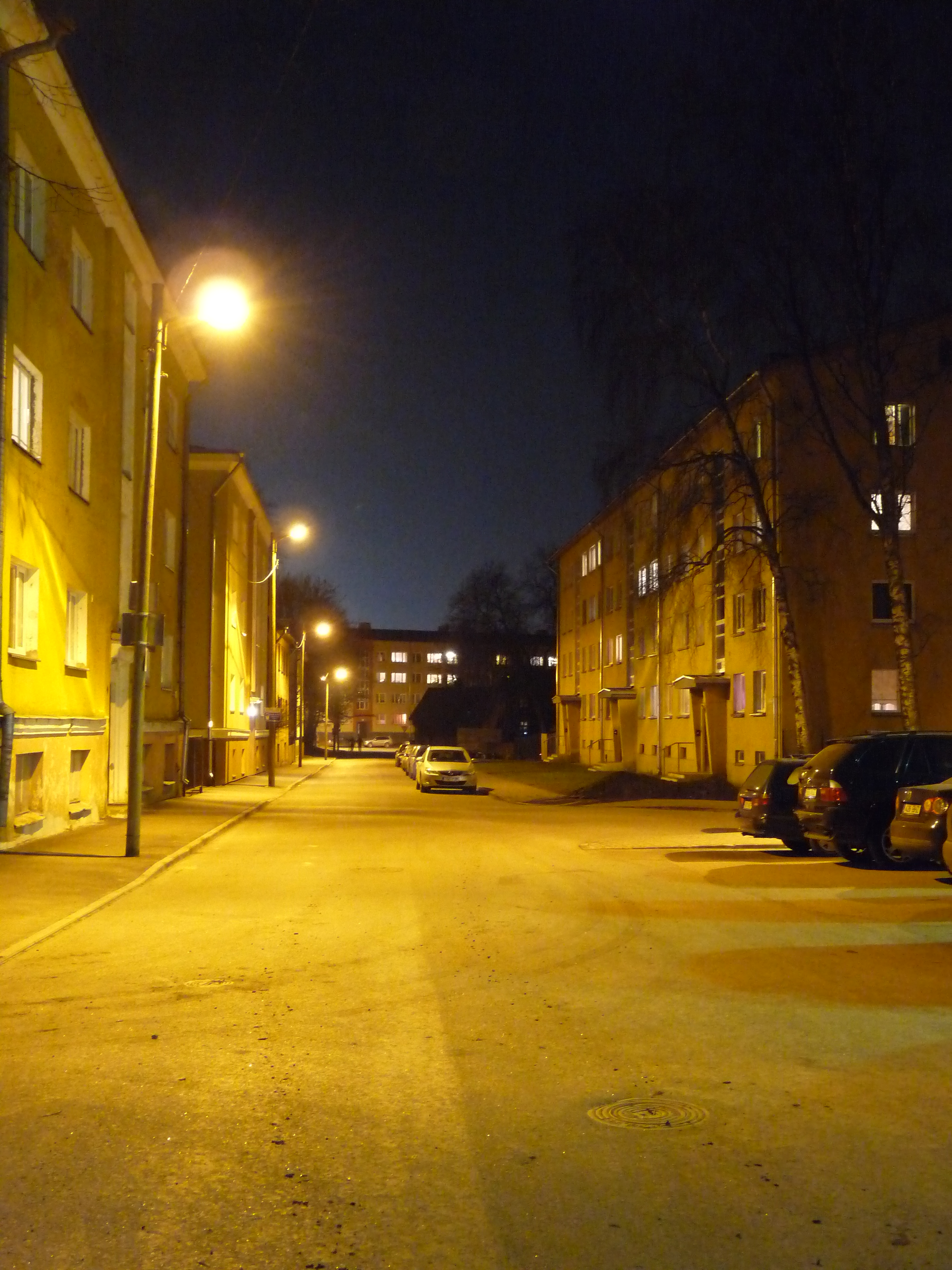 Kesk-Ameerika (middle America) street in Tallinn, Estonia